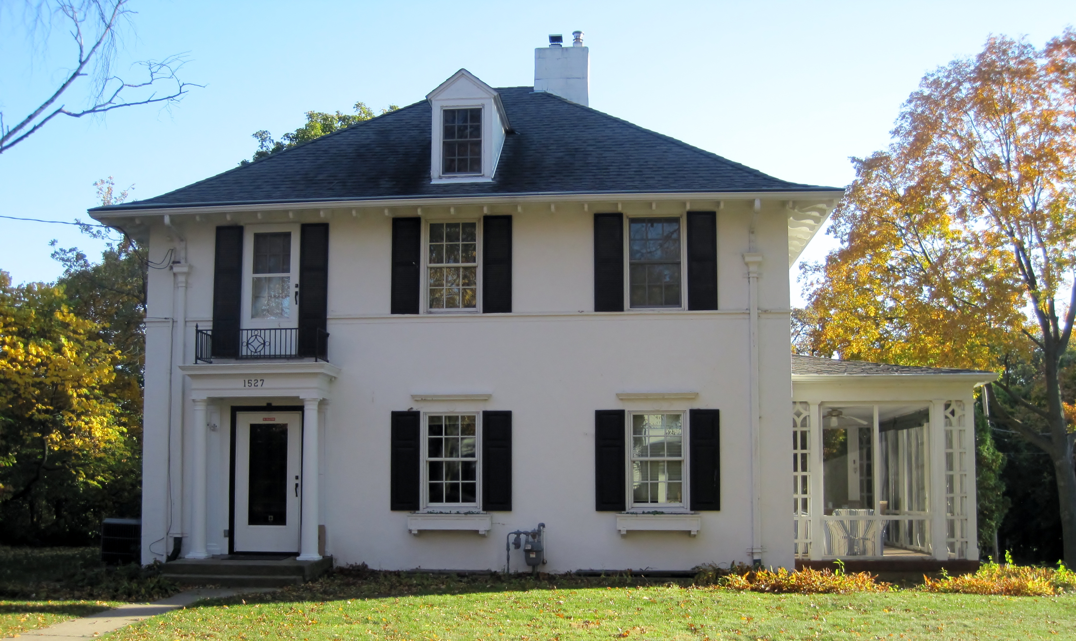 I (Teemu08 (talk)) took this image in October 2011.